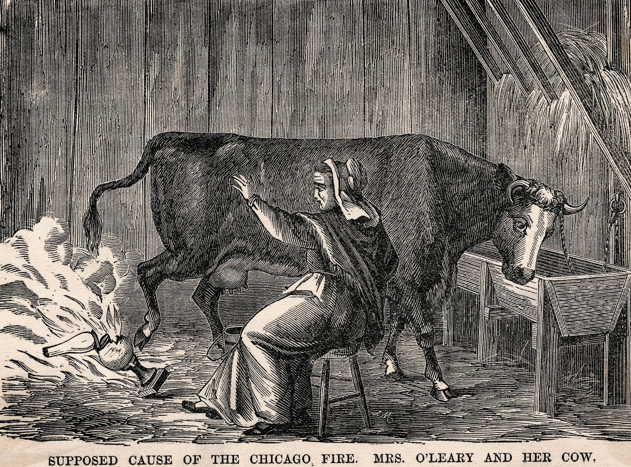 illustration from Harper's 1871 depicting Mrs O'Leary with her cow.